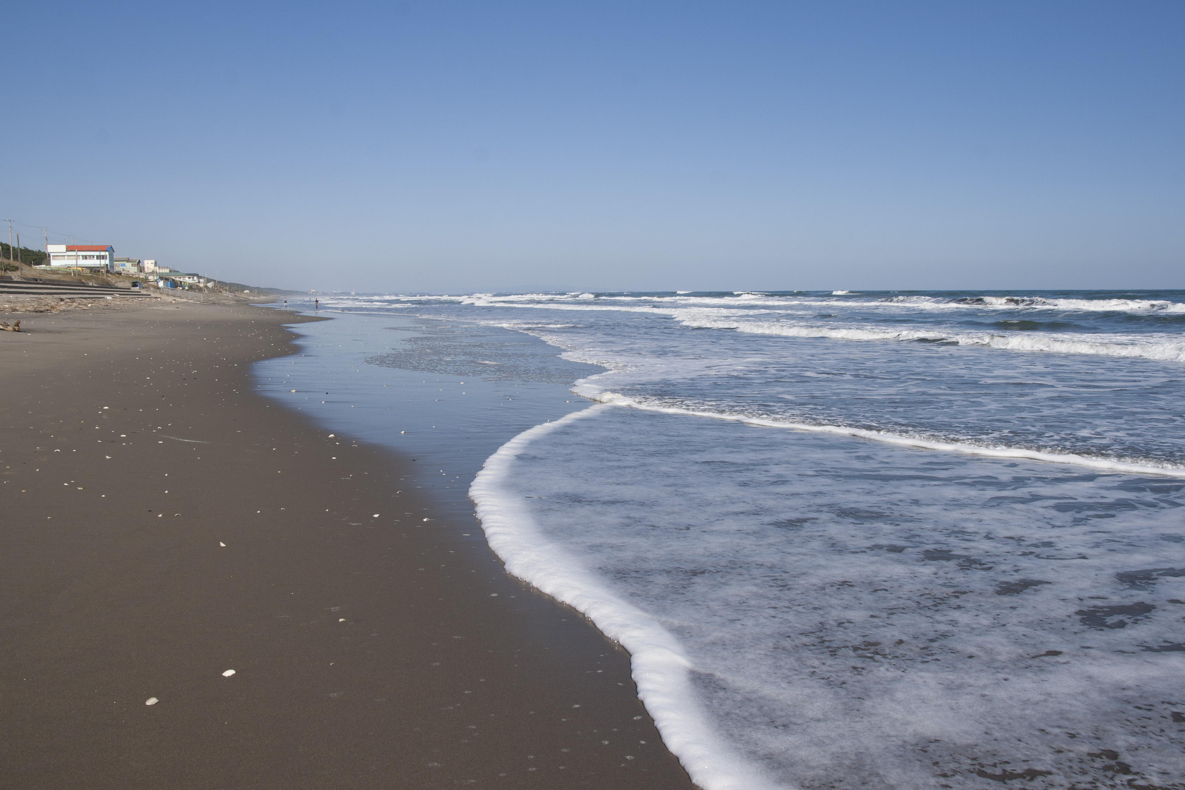 Otake Coast, Hokota City, Ibaraki Prefecture, Japan.